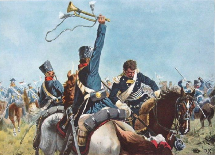 Painting of the German artist Richard Knötel (1857-1914), showing a famous scene of the Battle of Möckern (April 5th, 1813).